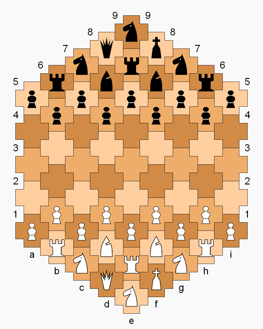 Using Chess Utrecht icons of Hans Bodlaender; WP board colors; all done in MS PAINT